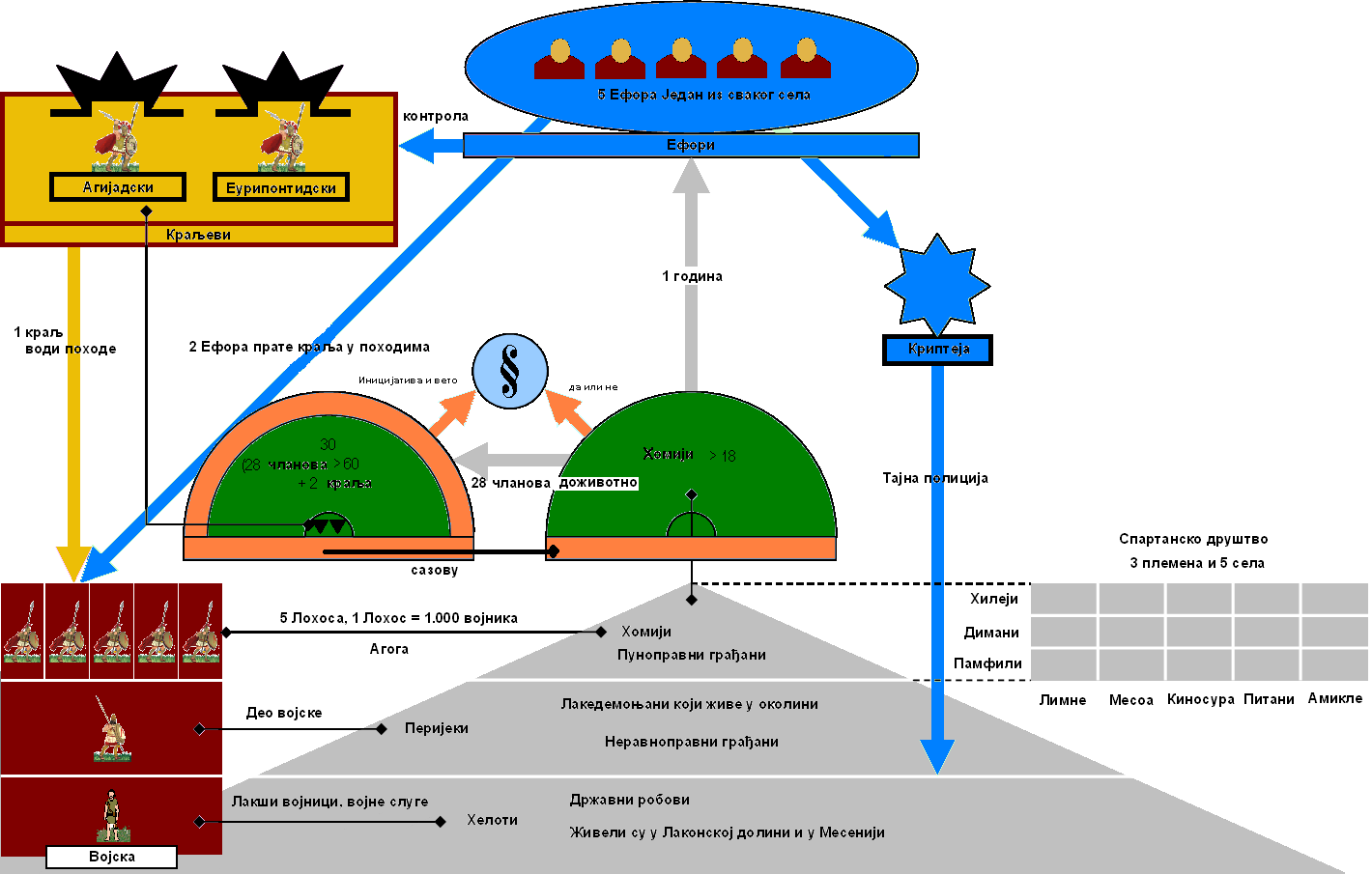 Spartan Great Rhetra Serbian